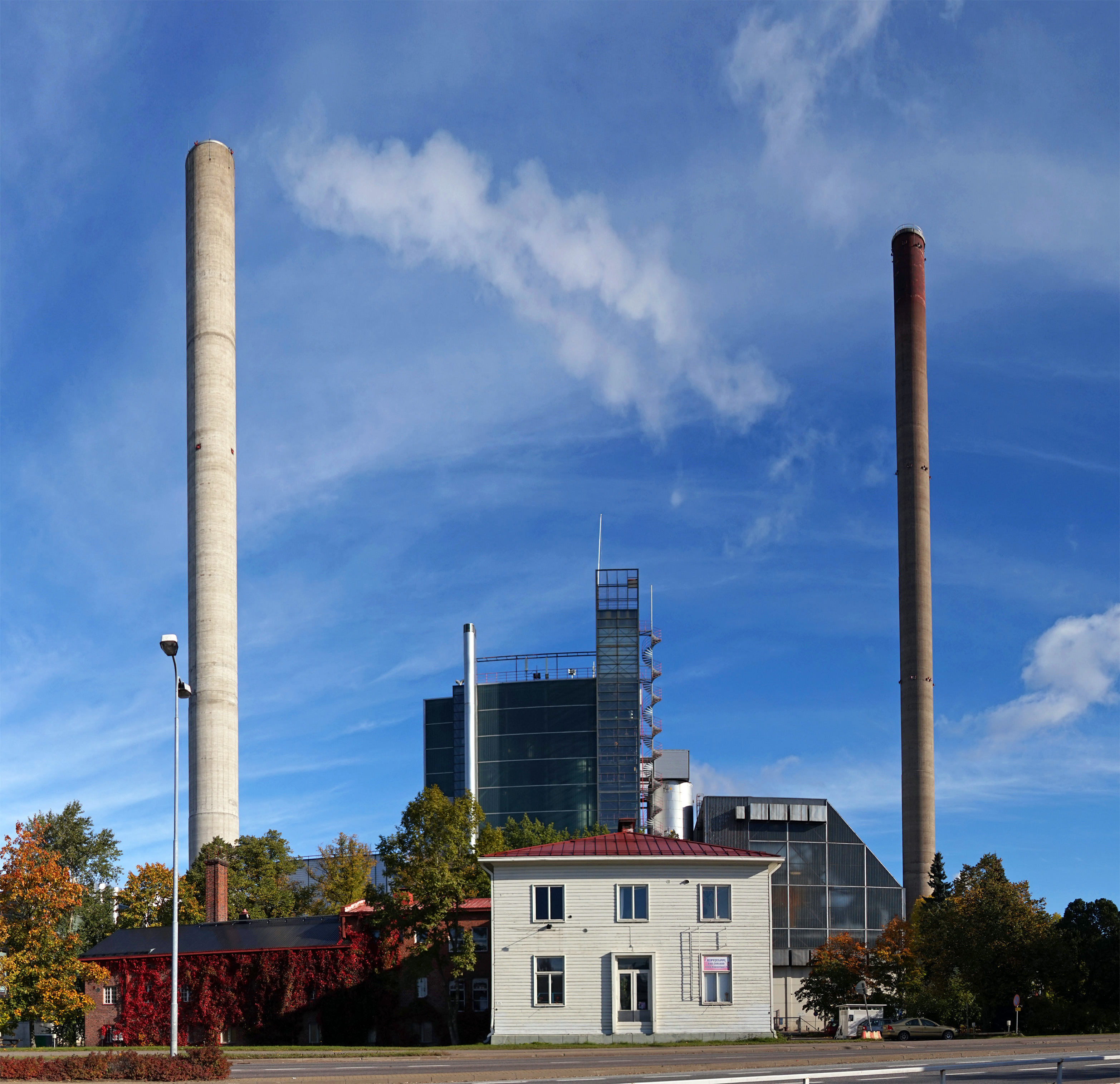 Varkaus, Stora Enso paper mill